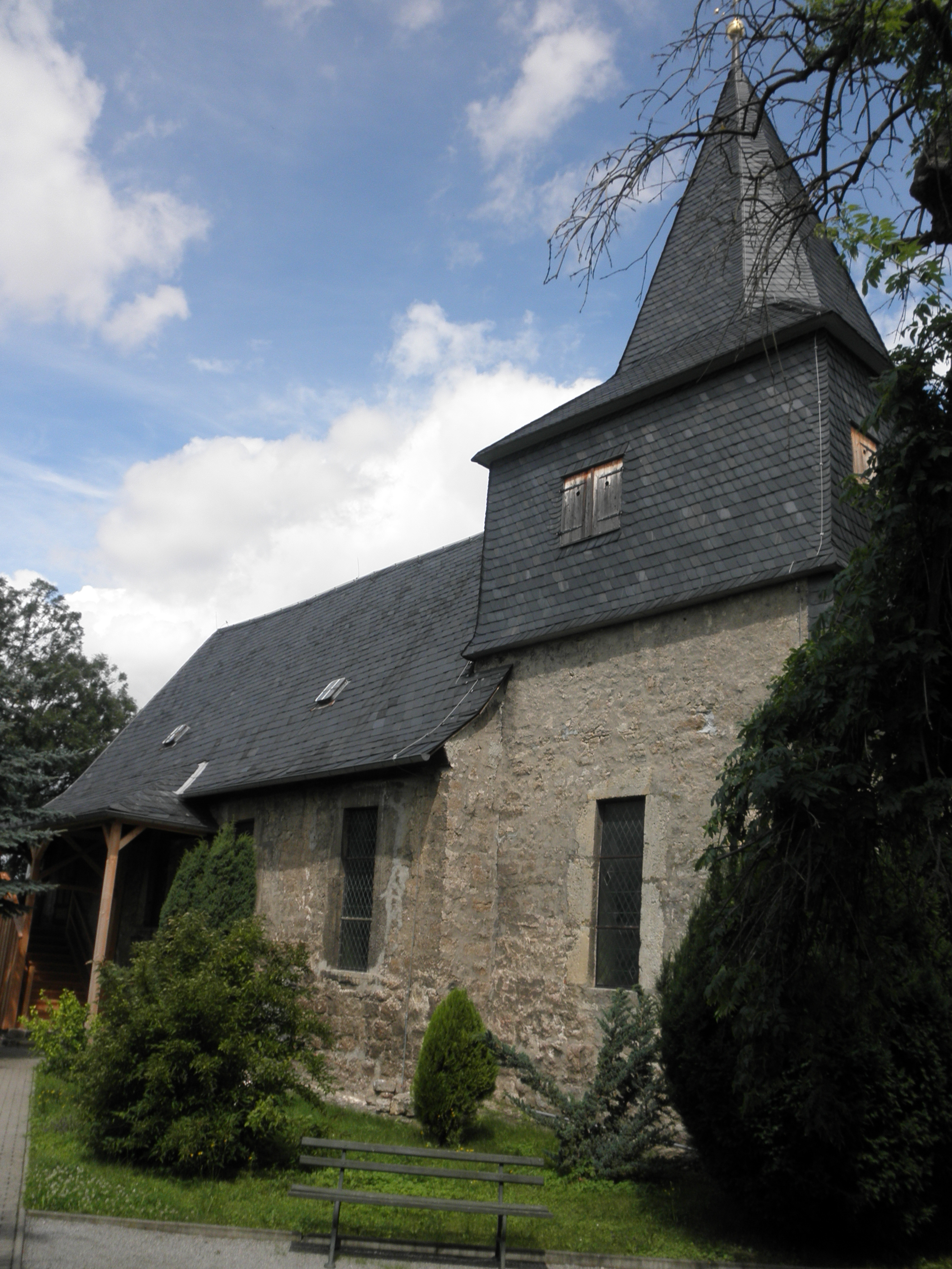 Church in Kleinromstedt (Saaleplatte) in Thuringia